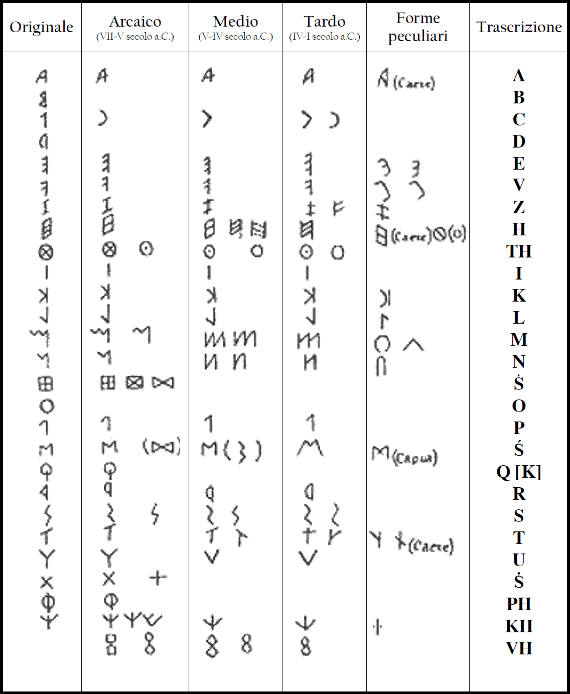 List of Etruscan alphabet.